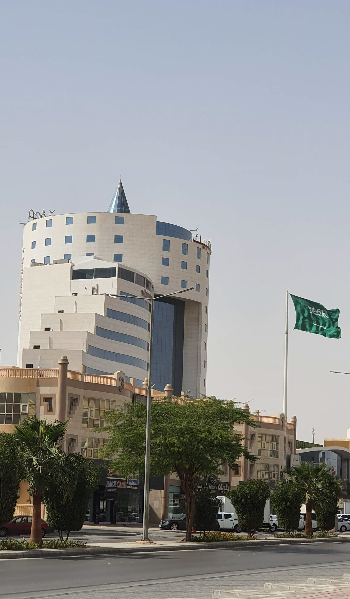 Mövenpick Hotel in Buraydah Al Qassim Saudi Arabia